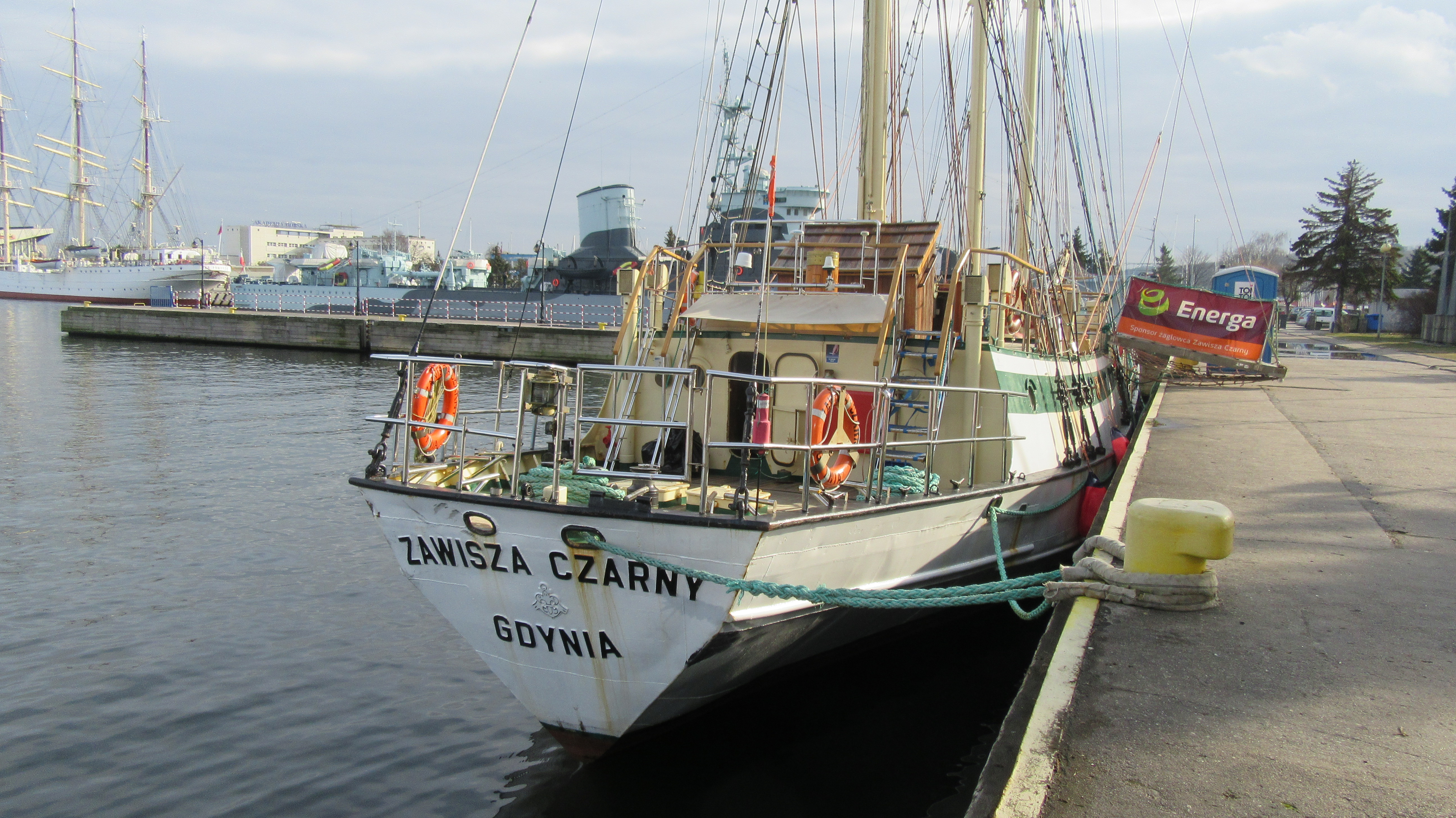 Sailing vessel of Polish Scouting and Guiding Association in port of Gdynia, Poland.